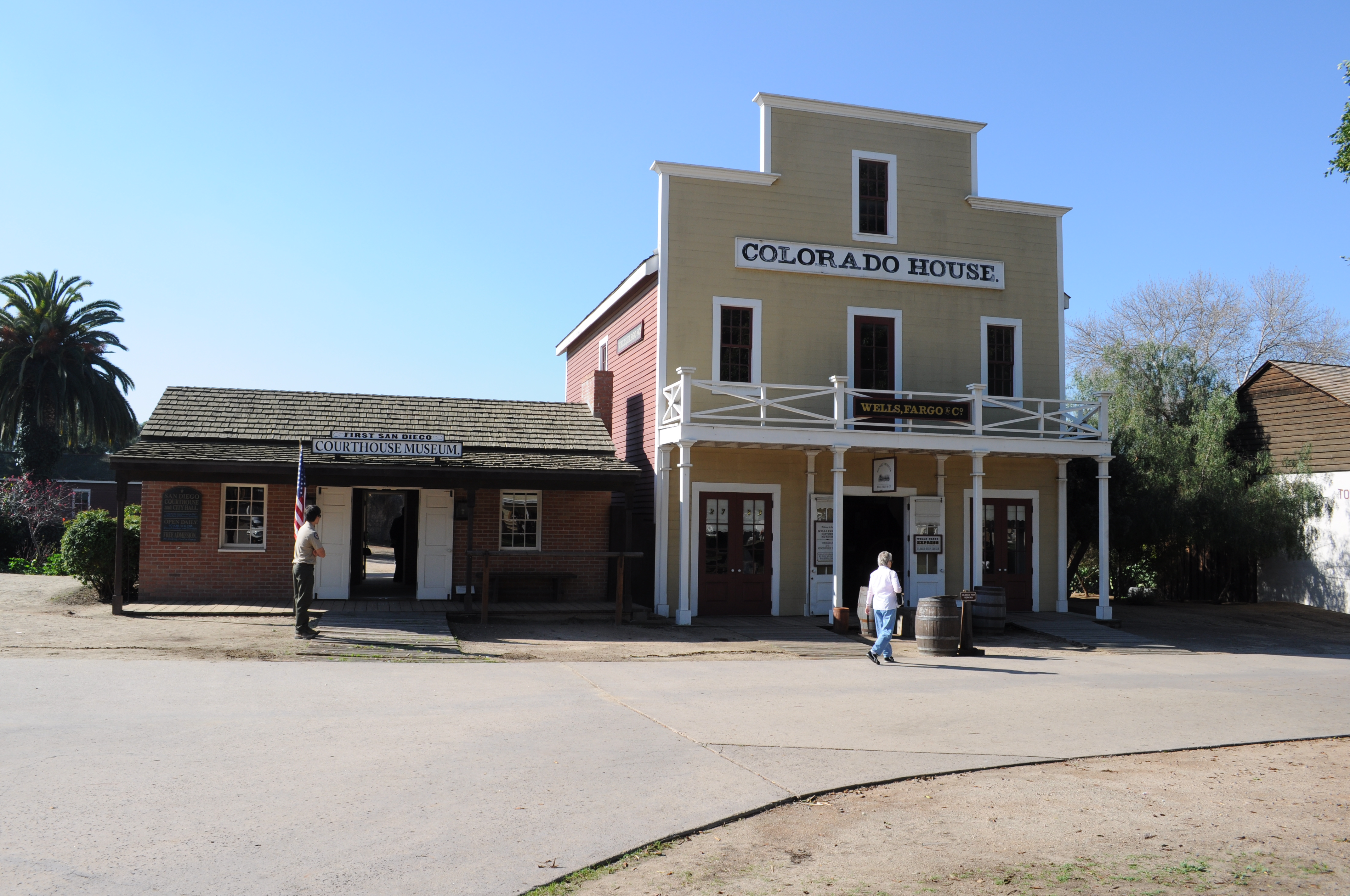 Old Town San Diego State Historic Park, San Diego, California, USA. On left, the Courthouse Museum (reconstruction of San Diego's first courthouse). On right, Wells Fargo museum, in the Colorado House.